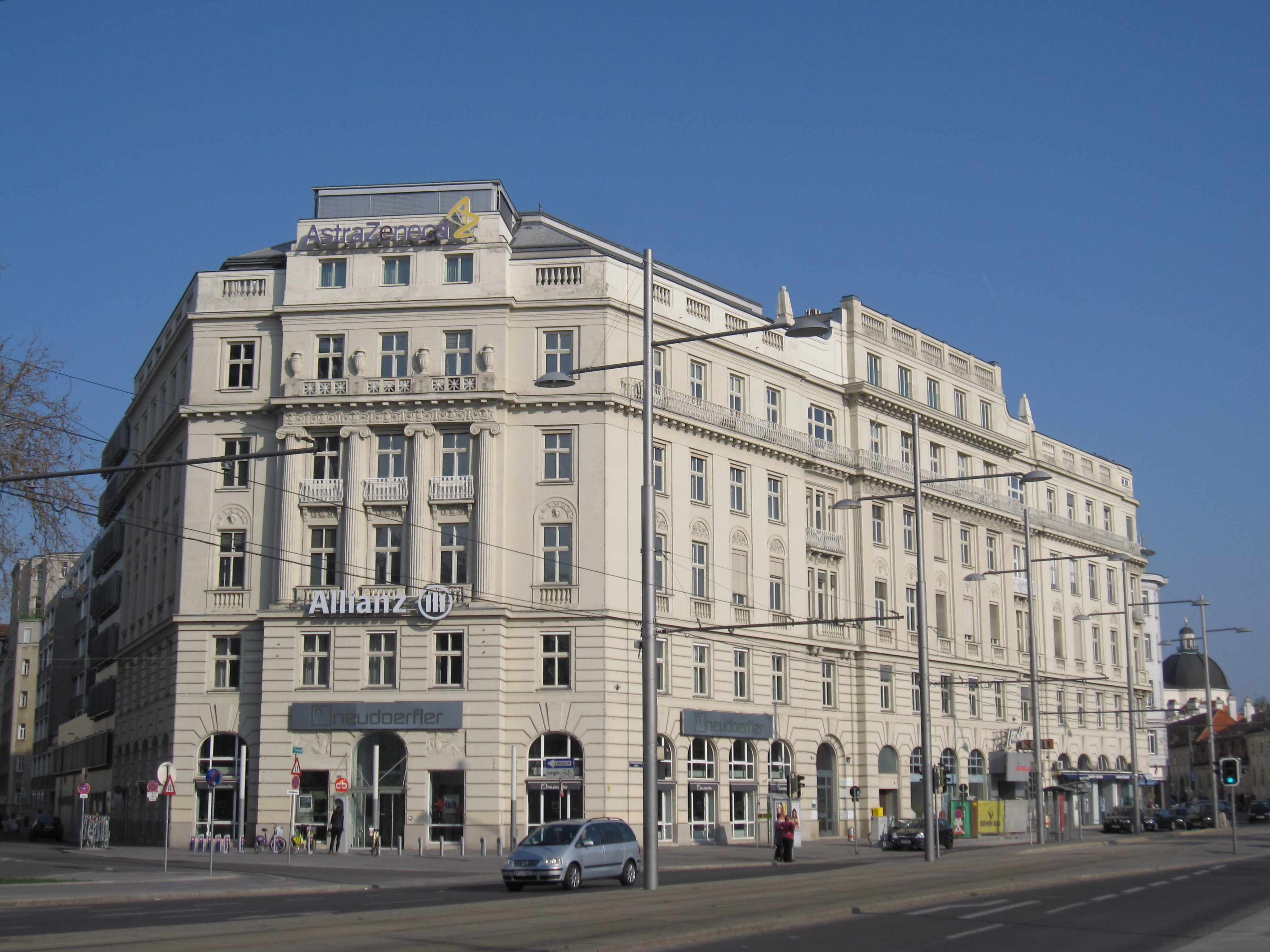 Schwarzenbergplatz 7-8 in Vienna.